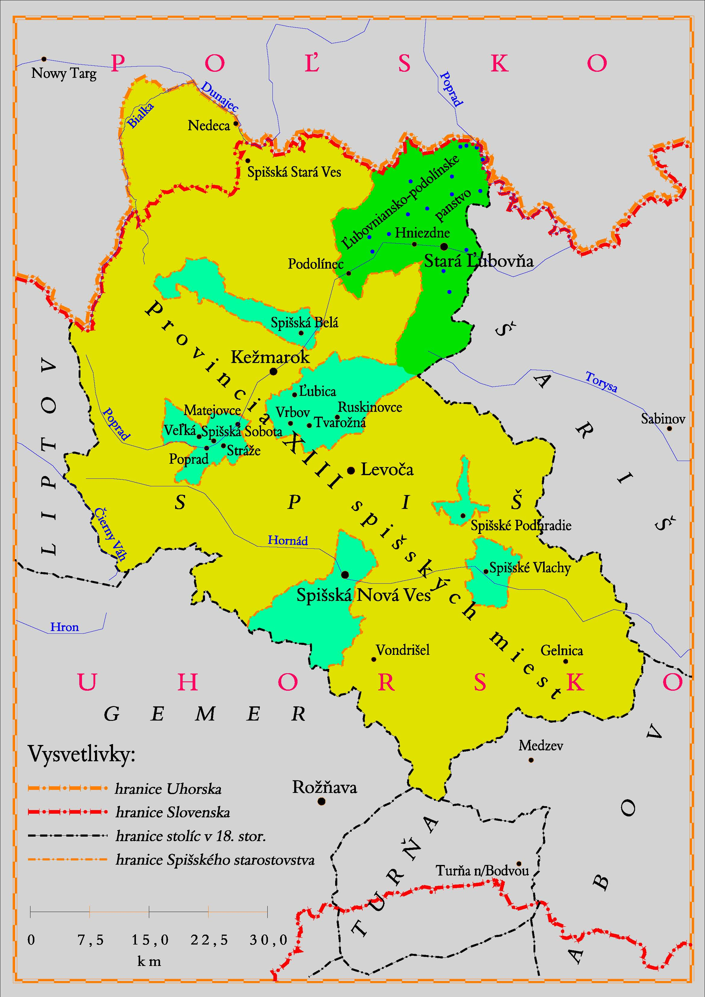 Map of Spis pawned towns and villages to Poland by Hungarian king Sigismund, Holy Roman Emperor; (1412-1772)